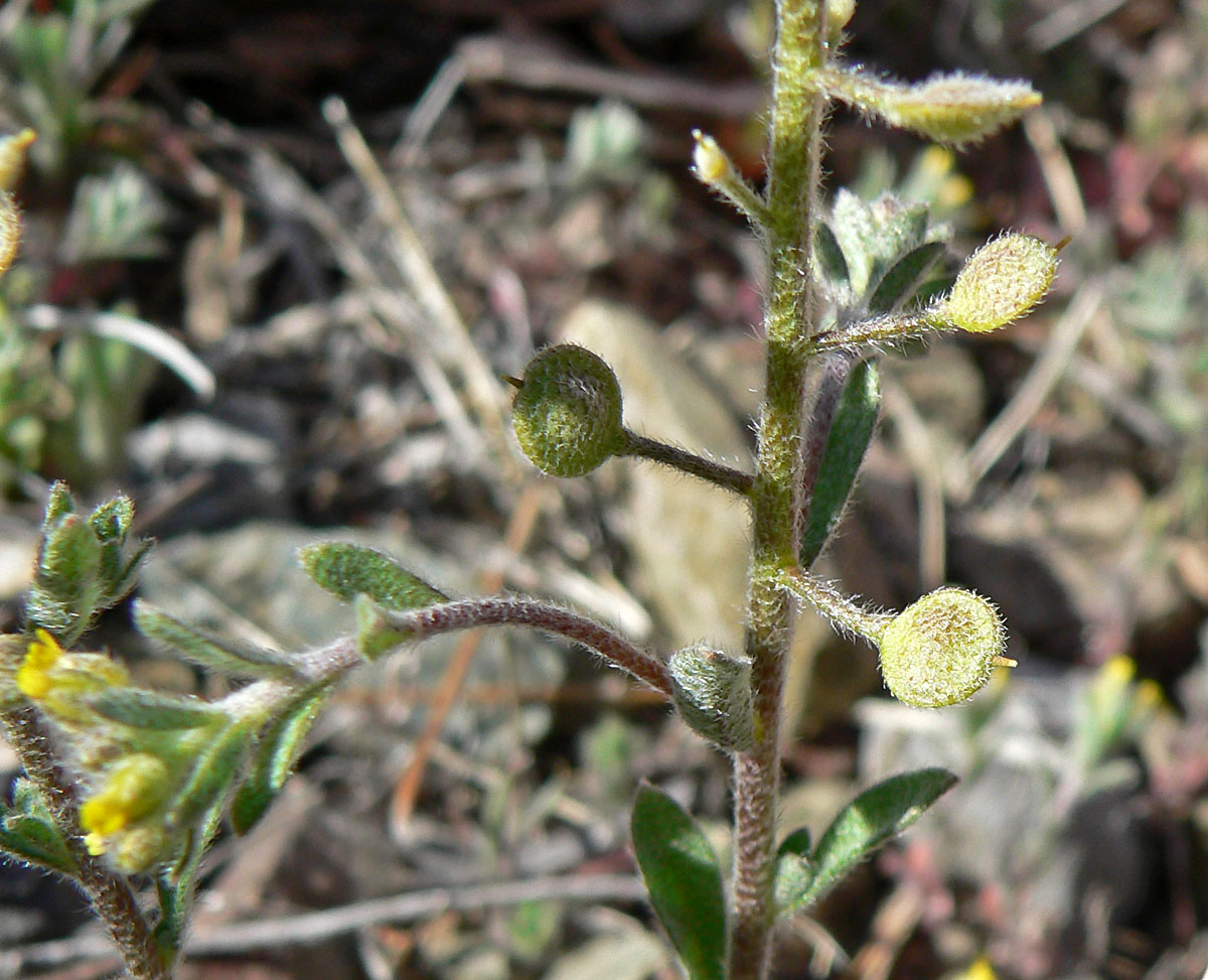 Alyssum simplex at Willow Spring of Willow Creek, Cold Creek area, Spring Mountains, southern Nevada (elev. about 1800 m)